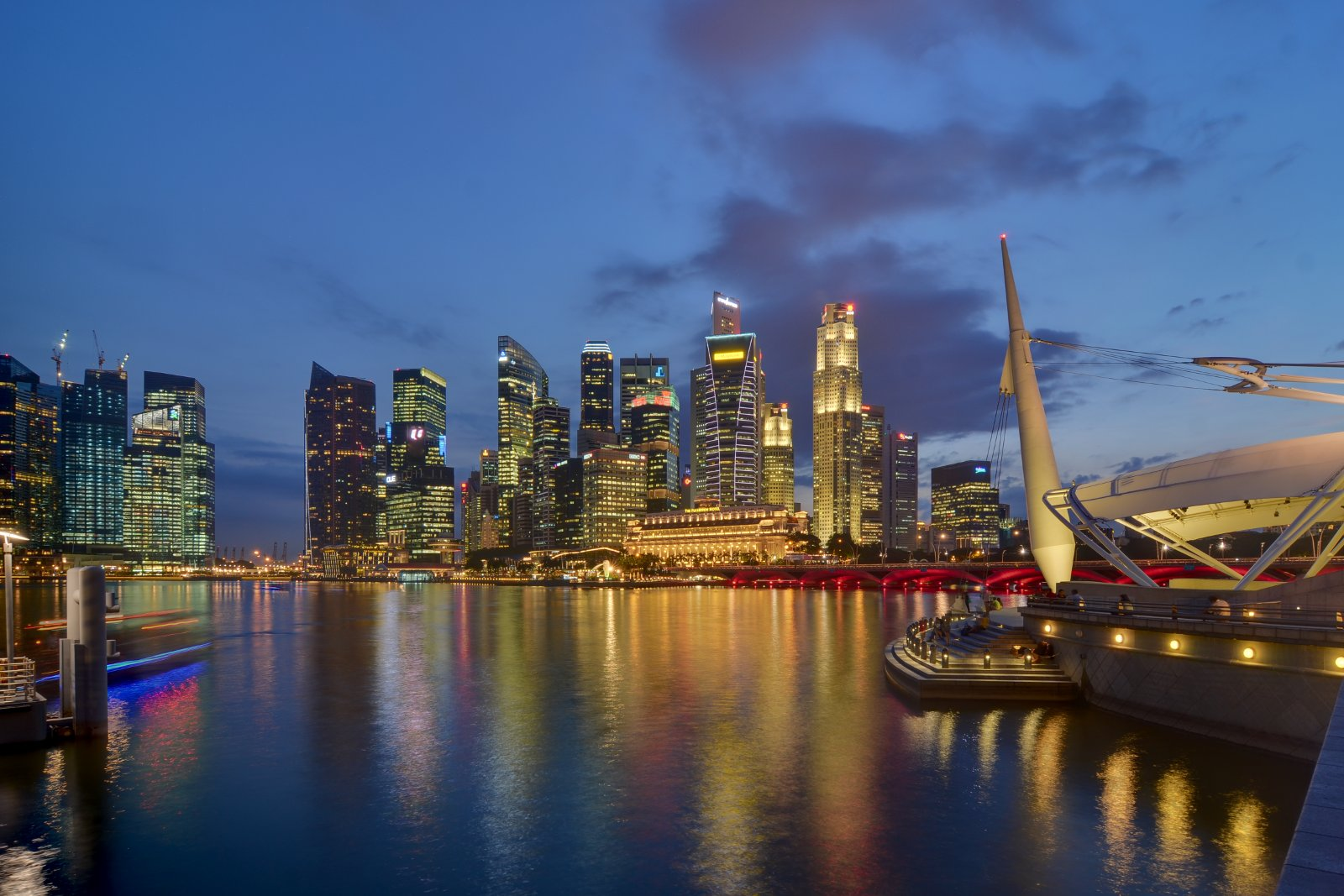 Skyline of the Central Business District of Singapore at dusk, seen from the Esplanade – Theatres on the Bay.